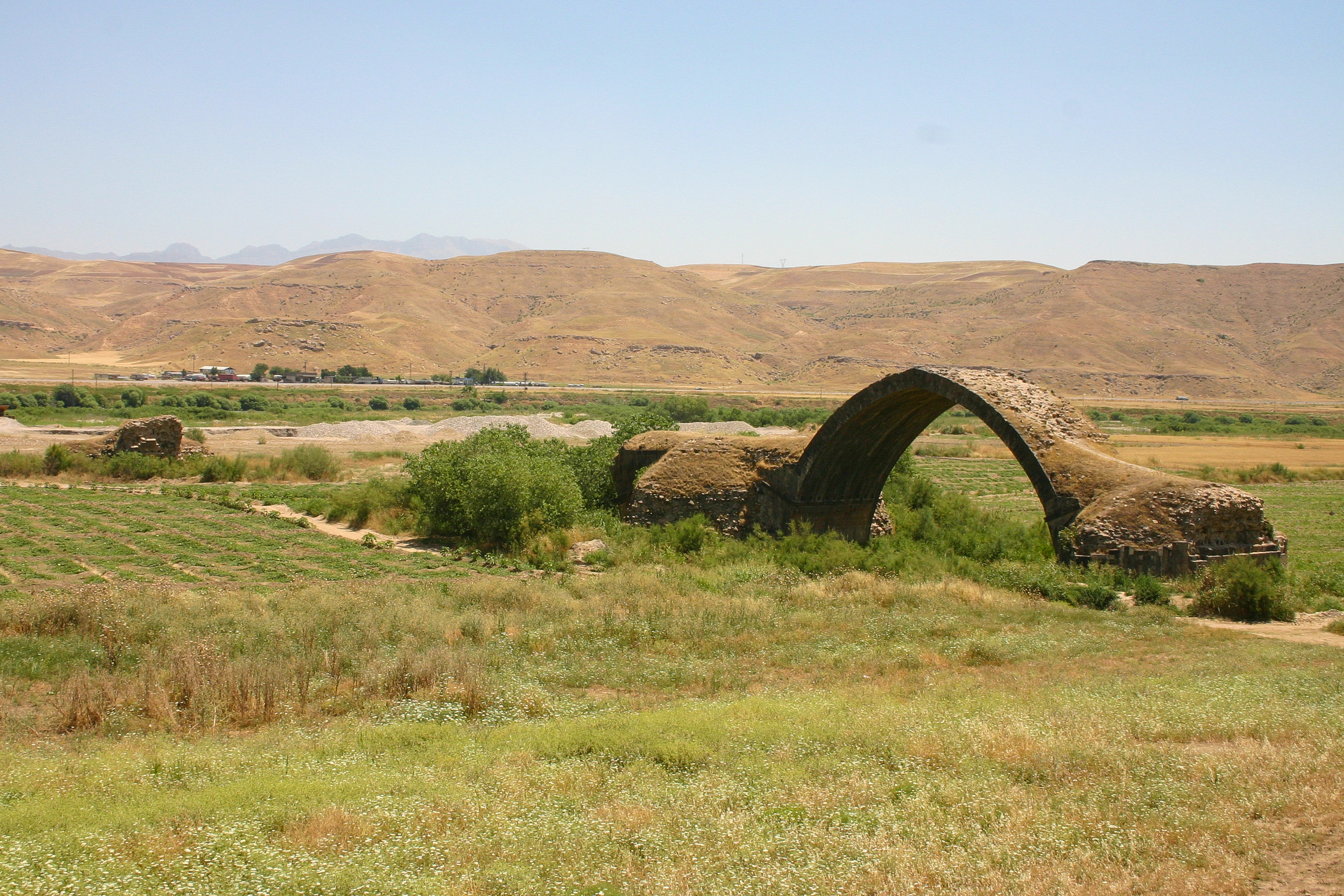 The Roman bridge at Ain Diwar, Syria, of which only a single span remains.